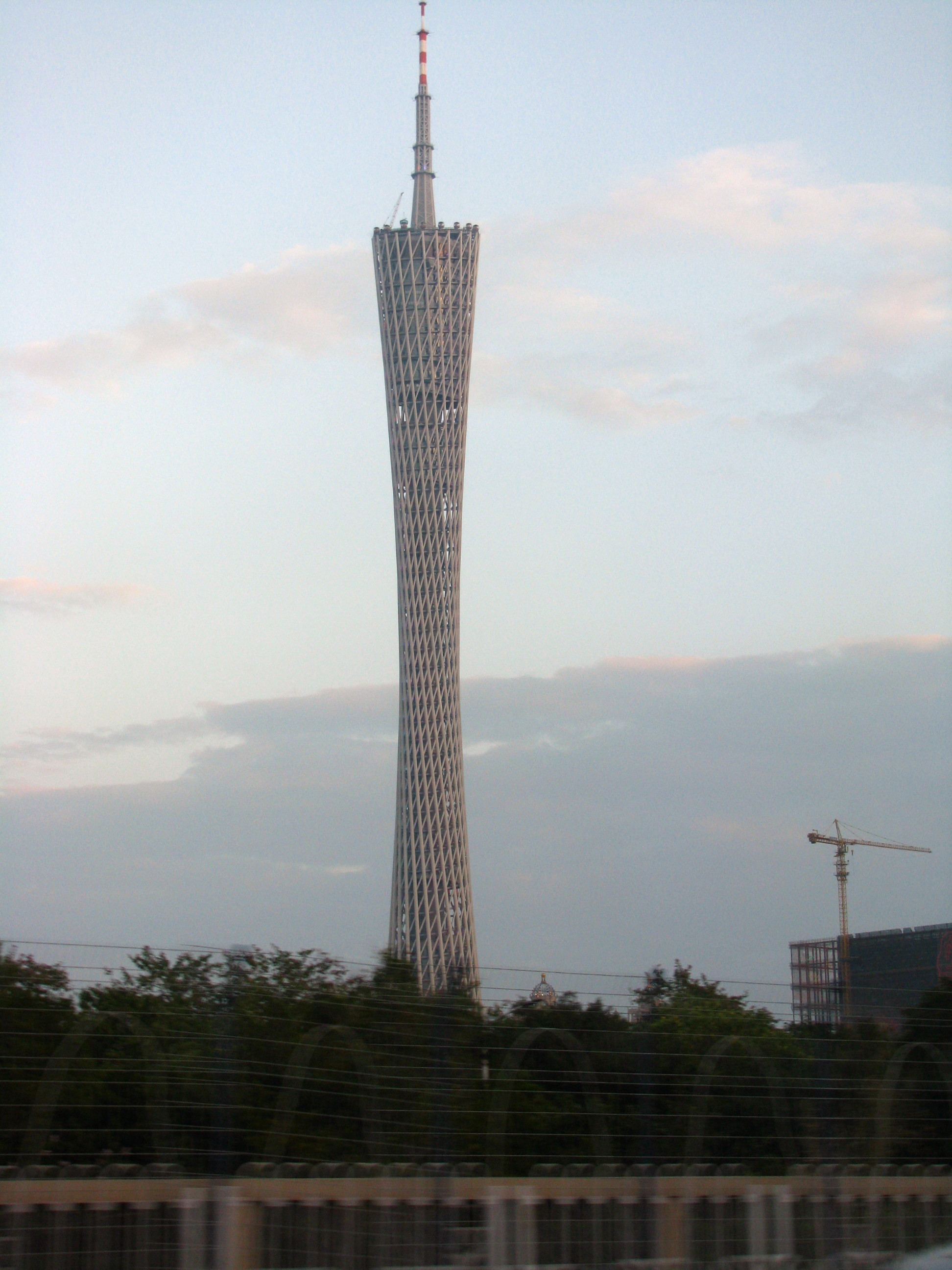 guangzhou tv tower